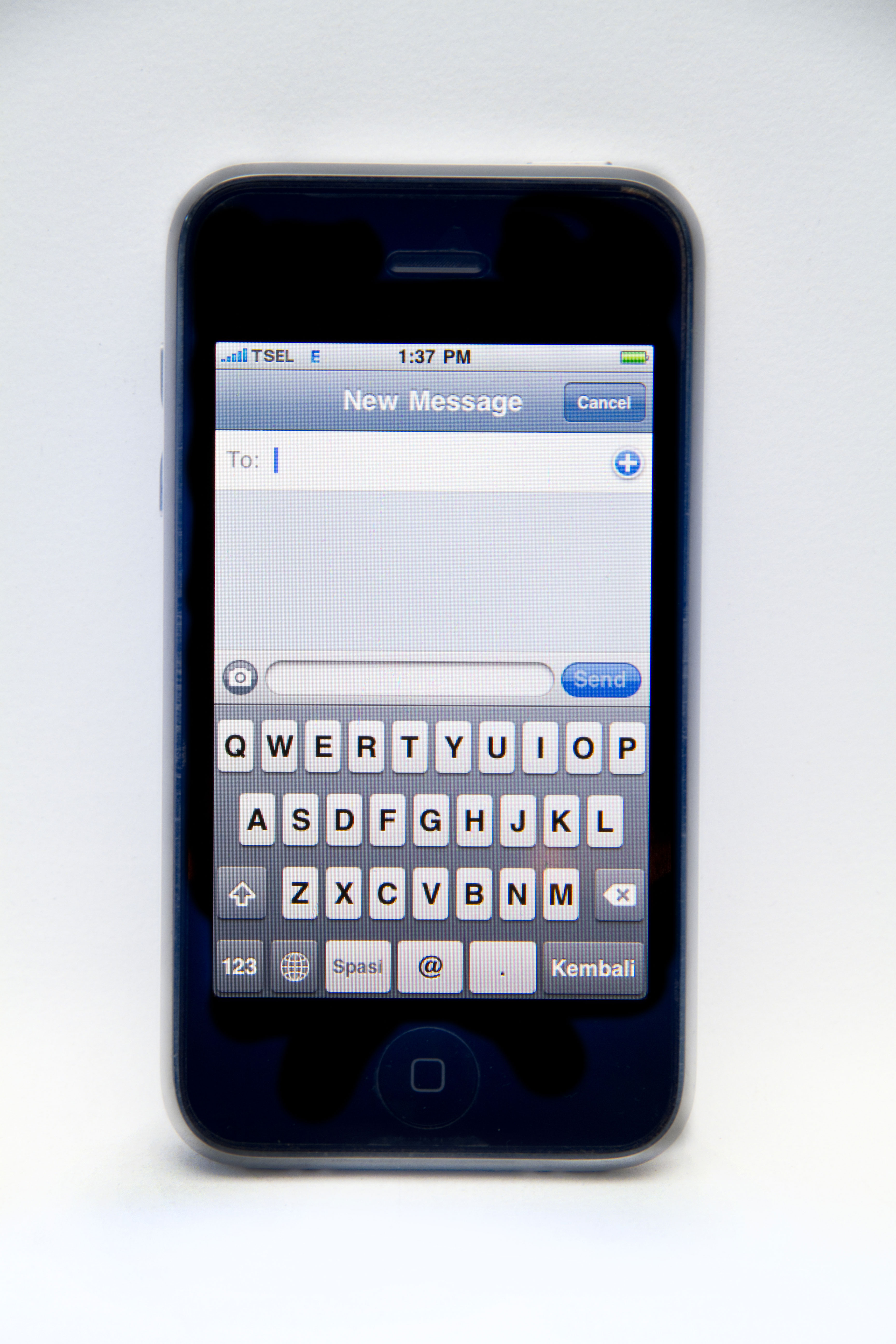 a White iPhone 3G displaying virtual keyboard in portrait mode